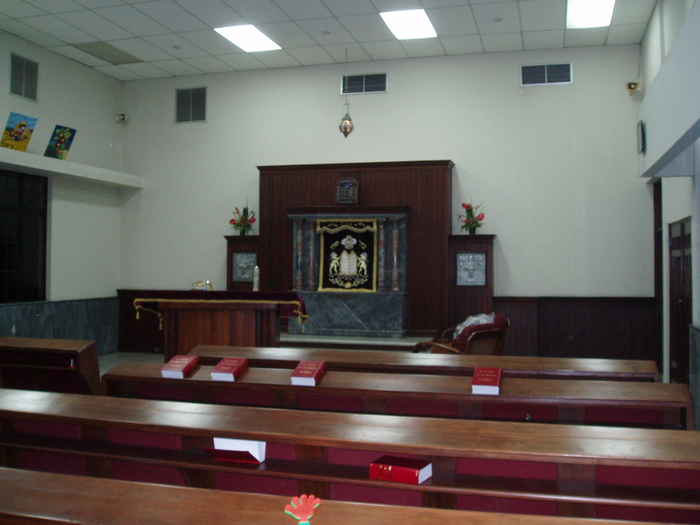 Synagogue of the small Jewish community in Santo Domingo, Dominican Republic.